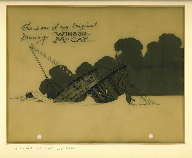 A cel from the animated film The Sinking of the Lusitania by American cartoonist and animator Winsor McCay